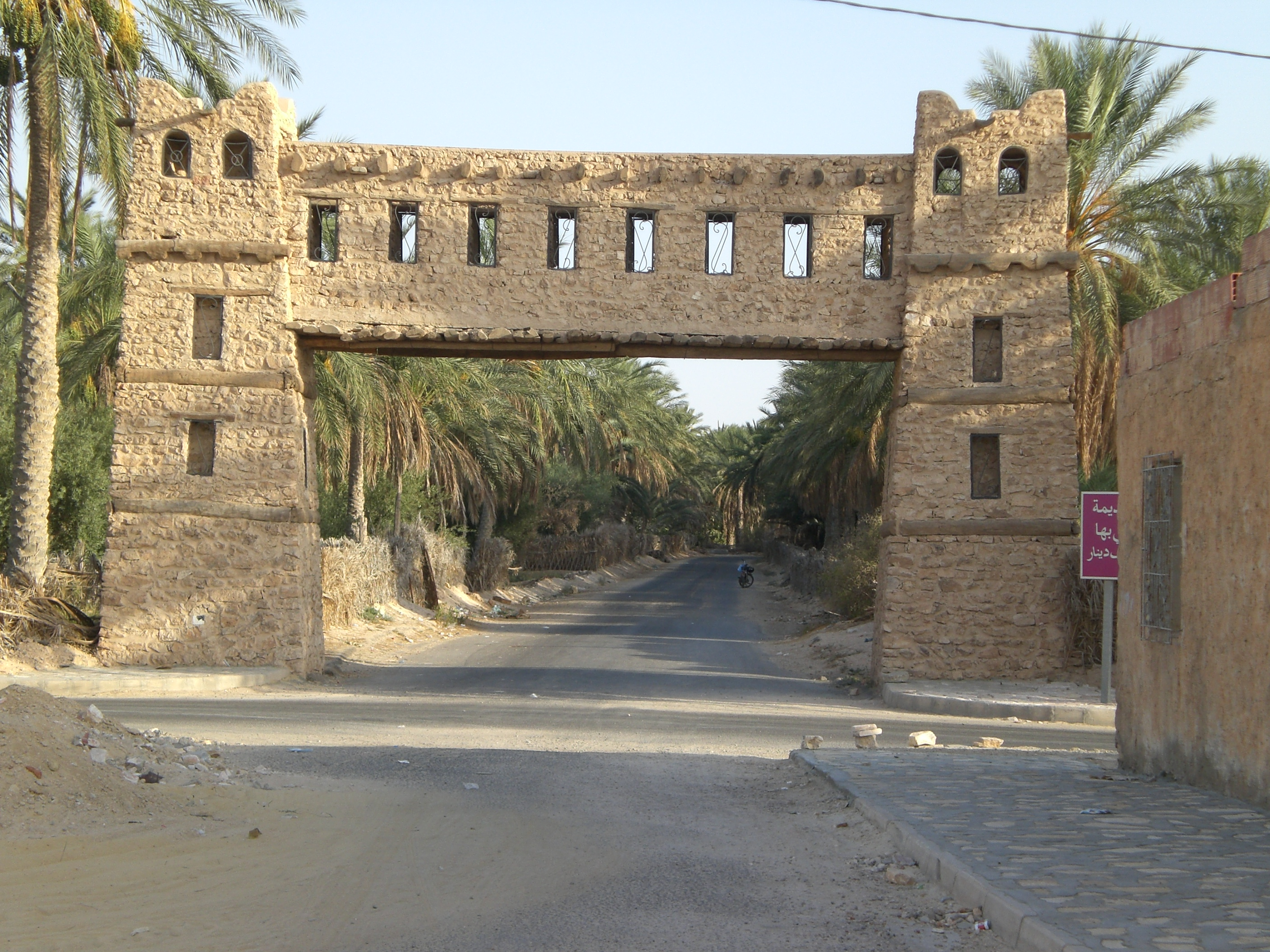 Oasis Entry